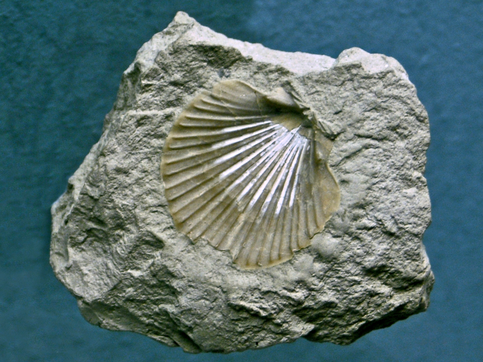 A fossil valve of Flabellipecten flabelliformis. On display at Museo di Scienze Naturali Enrico Caffi, Bergamo